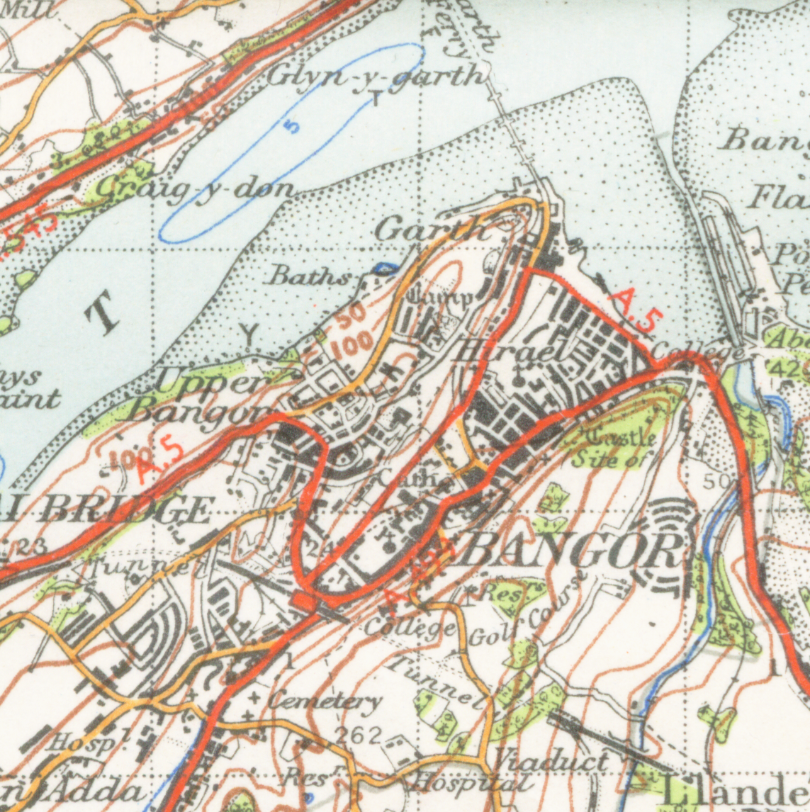 Map of Bangor from 1947. Scale 1 inch to the mile 600DPI Sheet 107 "snowdon"